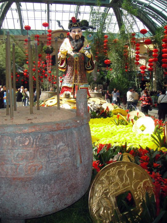 The Chinese New Year 2010 display in the conservatory at the Bellagio.